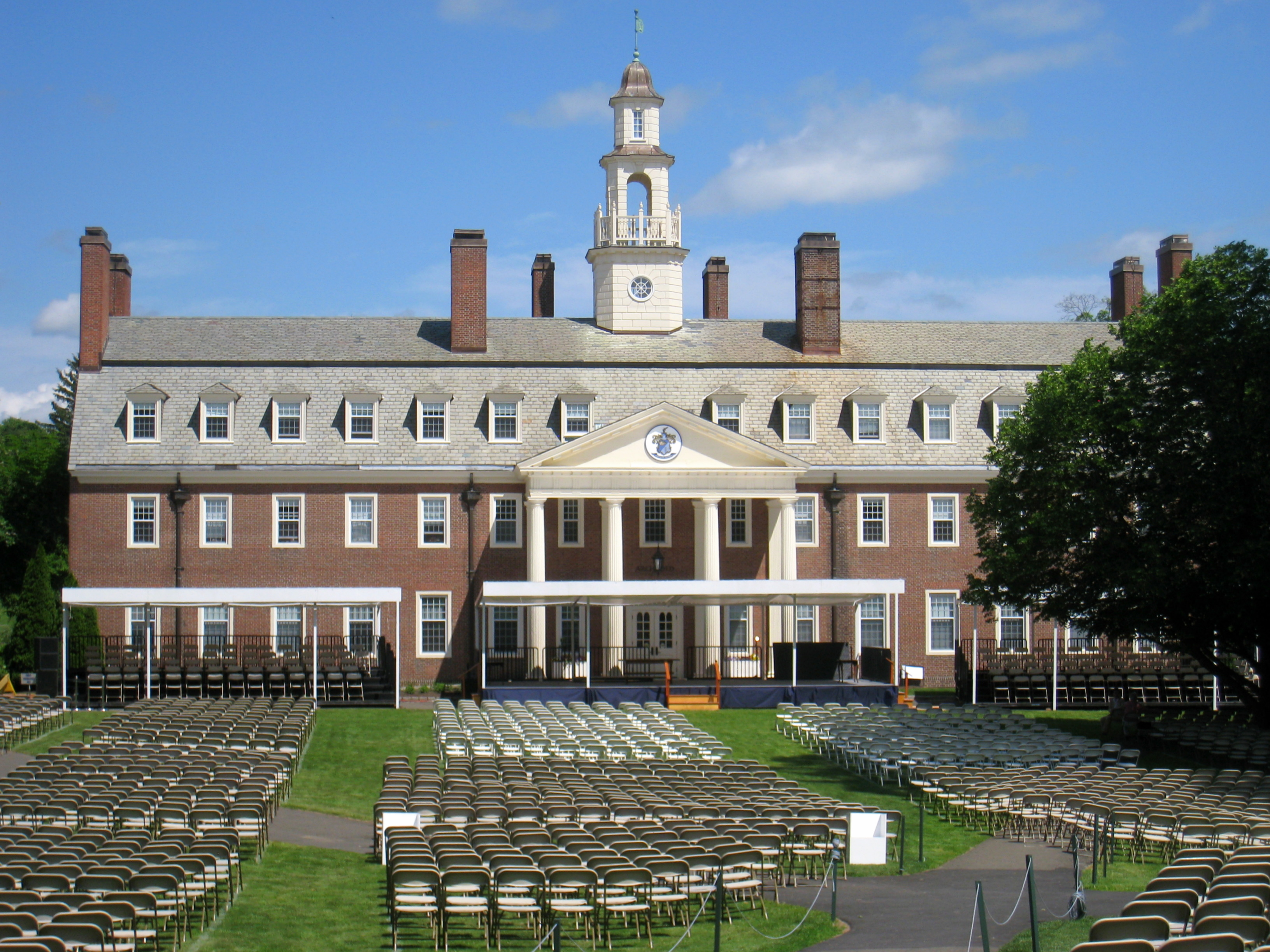 Archbold (dorm) - Choate Rosemary Hall, Wallingford, Connecticut, USA. Architect Ralph Adams Cram, 1928.